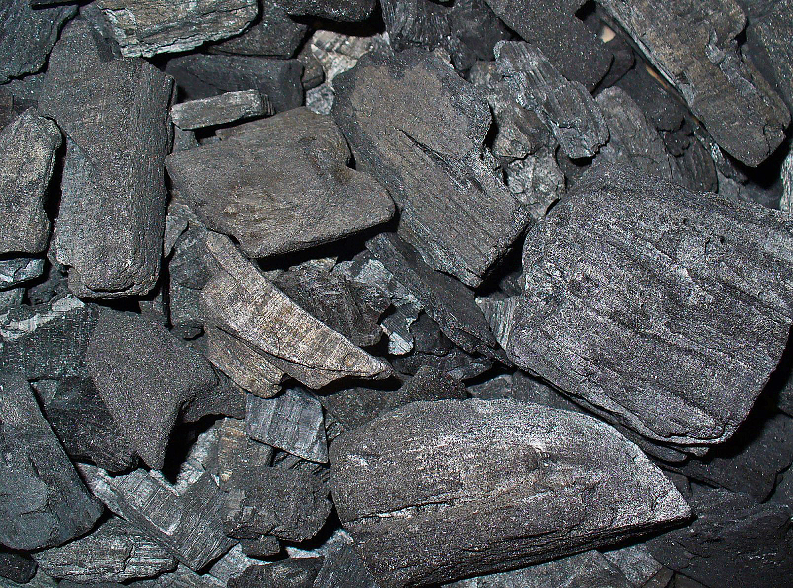 Charcoal. Used in homeopathy as remedy: Carbo vegetabilis (Carb-v.)